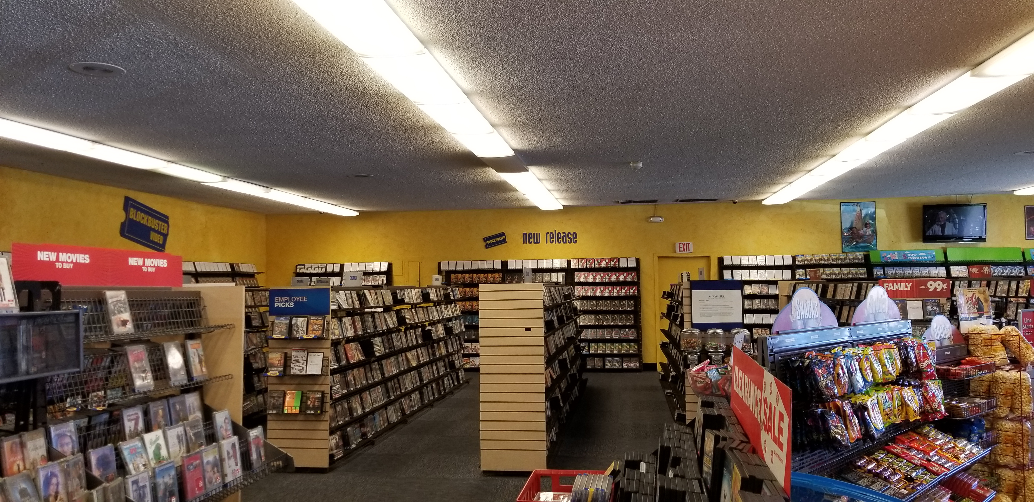 Interior of last remaining Blockbuster Video location in Bend, OR as seen in August 2018